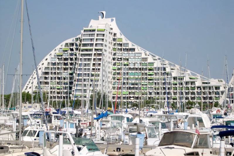 Building "La Grande Pyramide" at La Grande Motte, France.